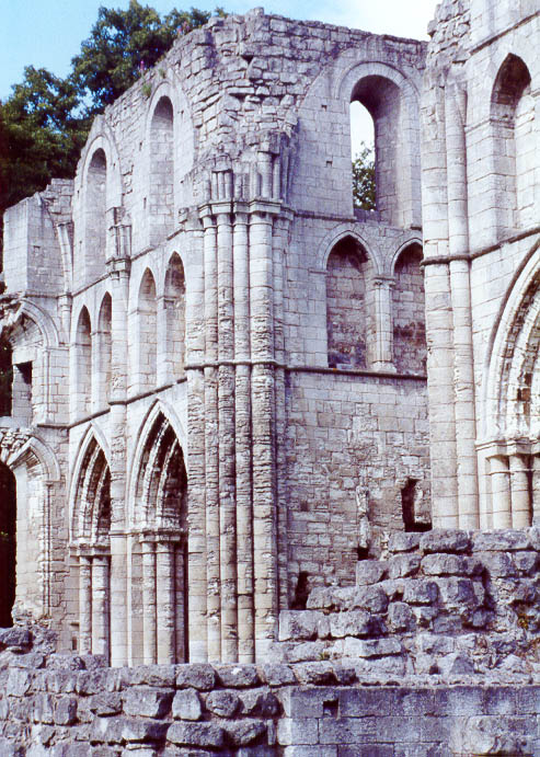 Roche Abbey, South Yorkshire, England. © 2000, Jeremy Atherton.